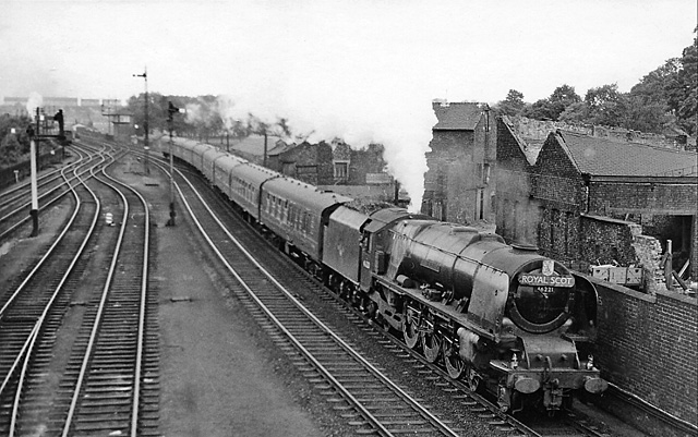 The 'Royal Scot' entering Carlisle. View NW by Dentonholme North Junction; West Coast Main Line, just north of Carlisle Citadel Station, where the Main Goods Avoiding-Lines joined (on the left). The 'crack' Royal Scot express (10.00 from Glasgow Central) took over seven hours - almost non-stop - to get to London Euston in those days. Here it is headed by 'Coronation' 4-6-2 No. 46221 'Queen Elizabeth'.